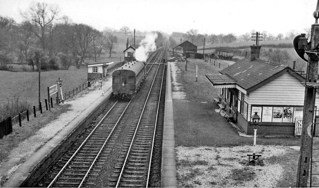 Bangor-on-Dee Station, with train. View southward, towards Ellesmere; ex-Cambrian Rlys. Ellesmere - Wrexham (Central) branch. The station and line closed completely on 10/9/62. The train was a rail-motor, hauled by a 14XX 0-4-2T